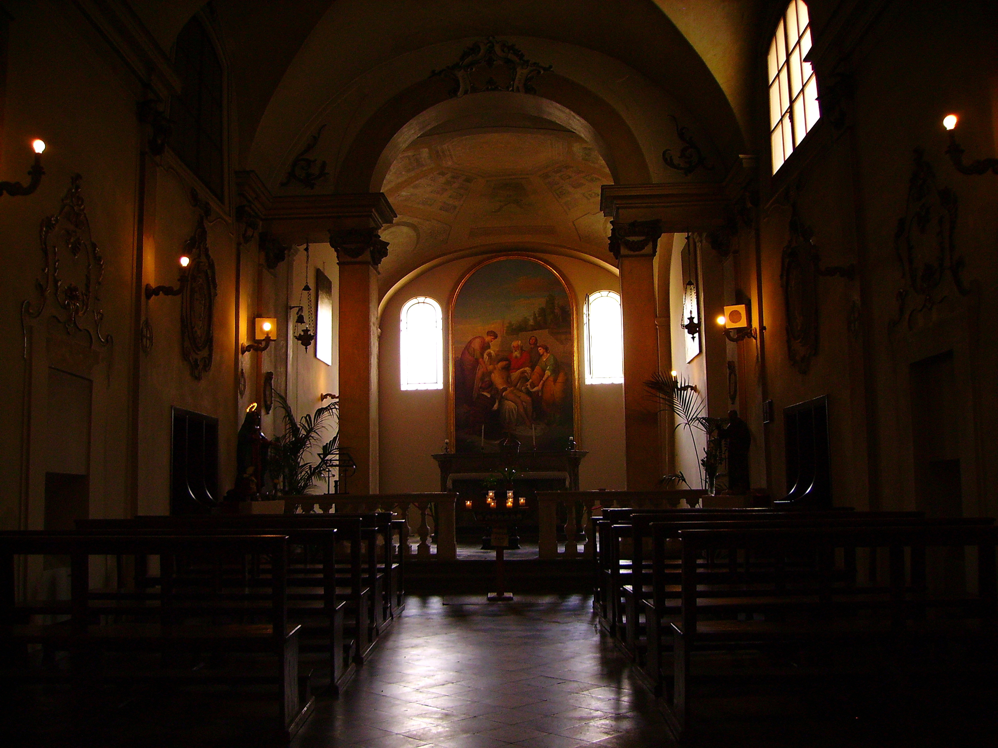 Interiors of Church of Misericordia in Montevarchi